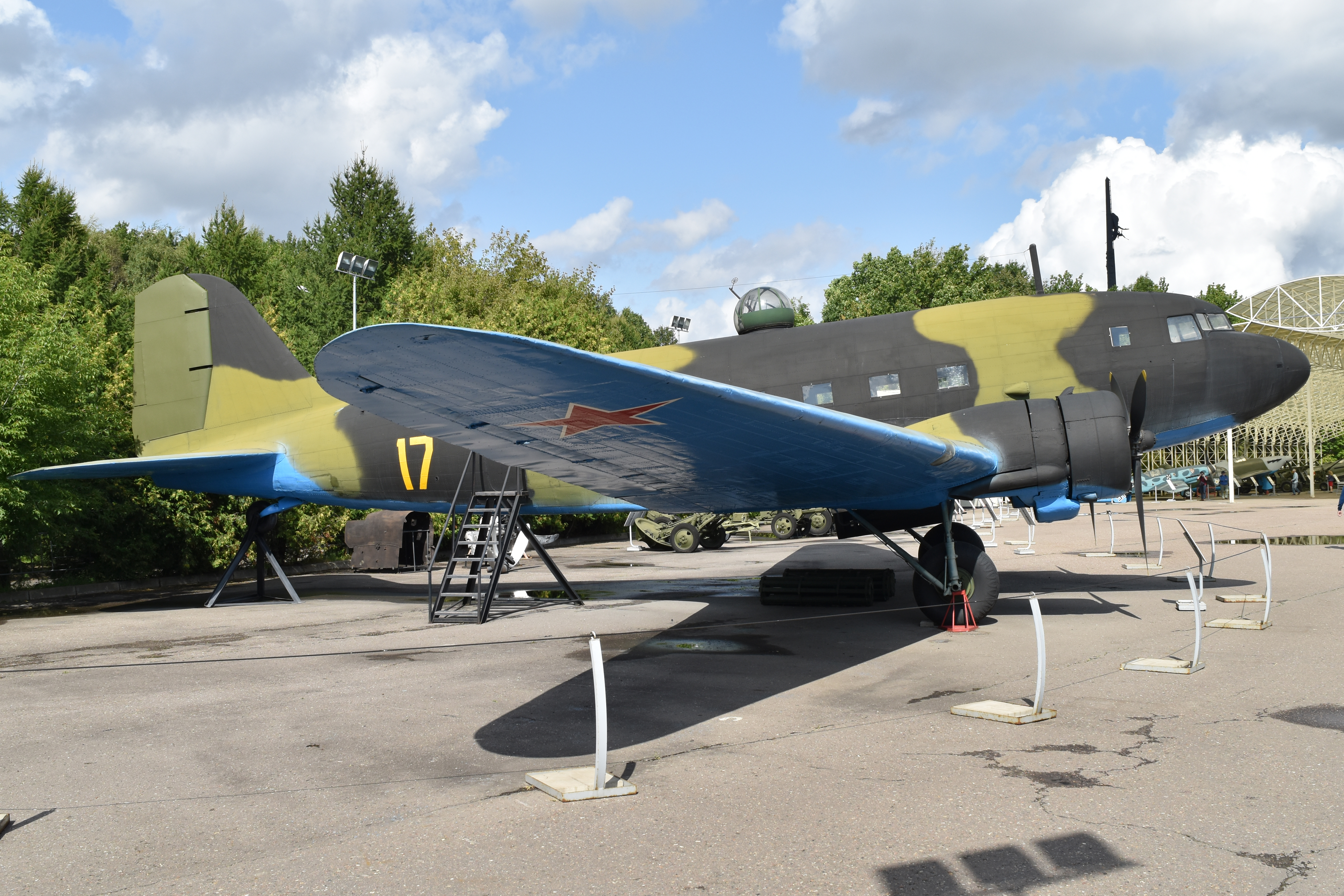 c/n 18438101. Previous civil registration:- CCCP-48986. The Li-2 was a license built copy of the Douglas DC-3. This is a purely civil machine which has been fitted with a false turret to represent an armed military variant for display purposes. The Li-2T was a basic transport variant. On display in ‘Victory Park’, Museum of the Great Patriotic War, Poklonnaya Hill, Moscow, Russia. 26th August 2017